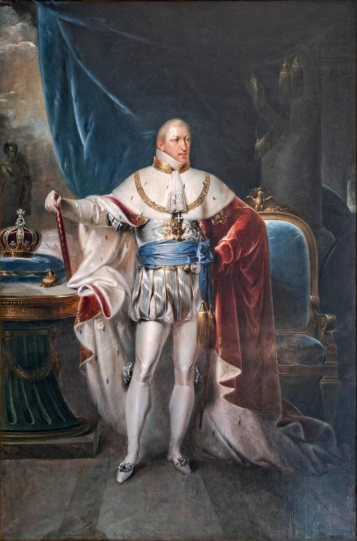 Portrait of Charles Felix of Sardinia (1765-1831)